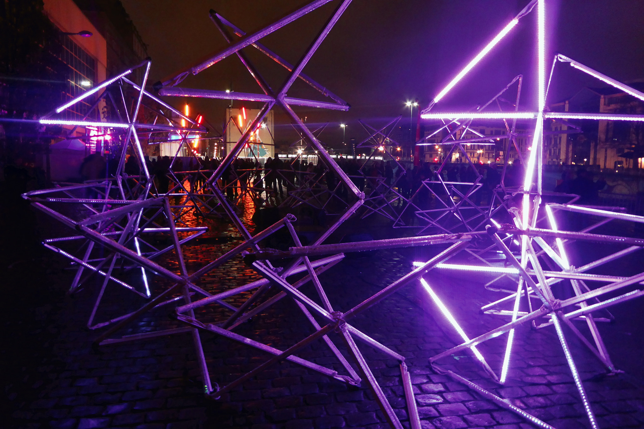 500px provided description: Brussels, winter 2017 [#show ,#city ,#color ,#night ,#light ,#lights ,#neon ,#colors ,#festival ,#led]